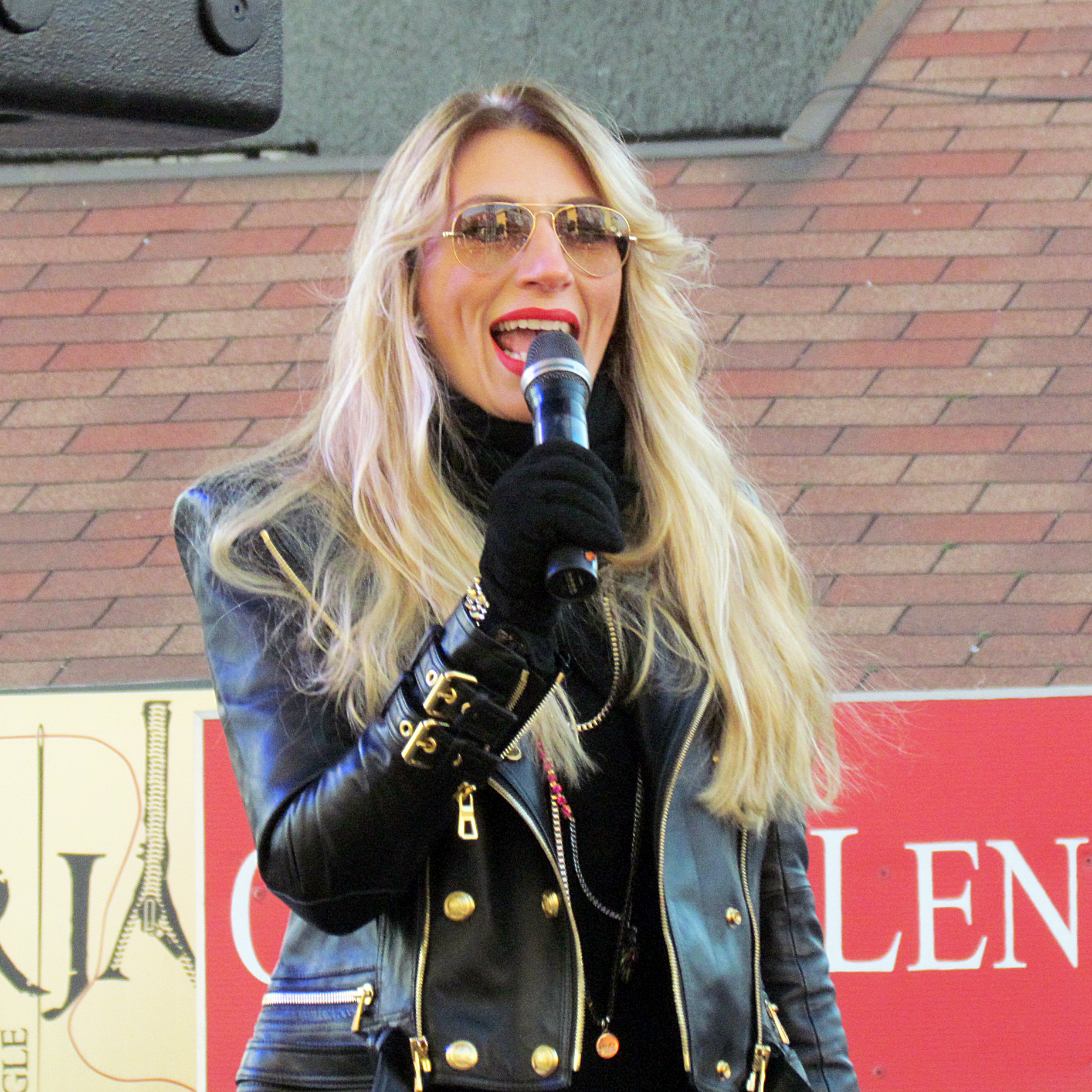 Serbian singer Ana Stanic